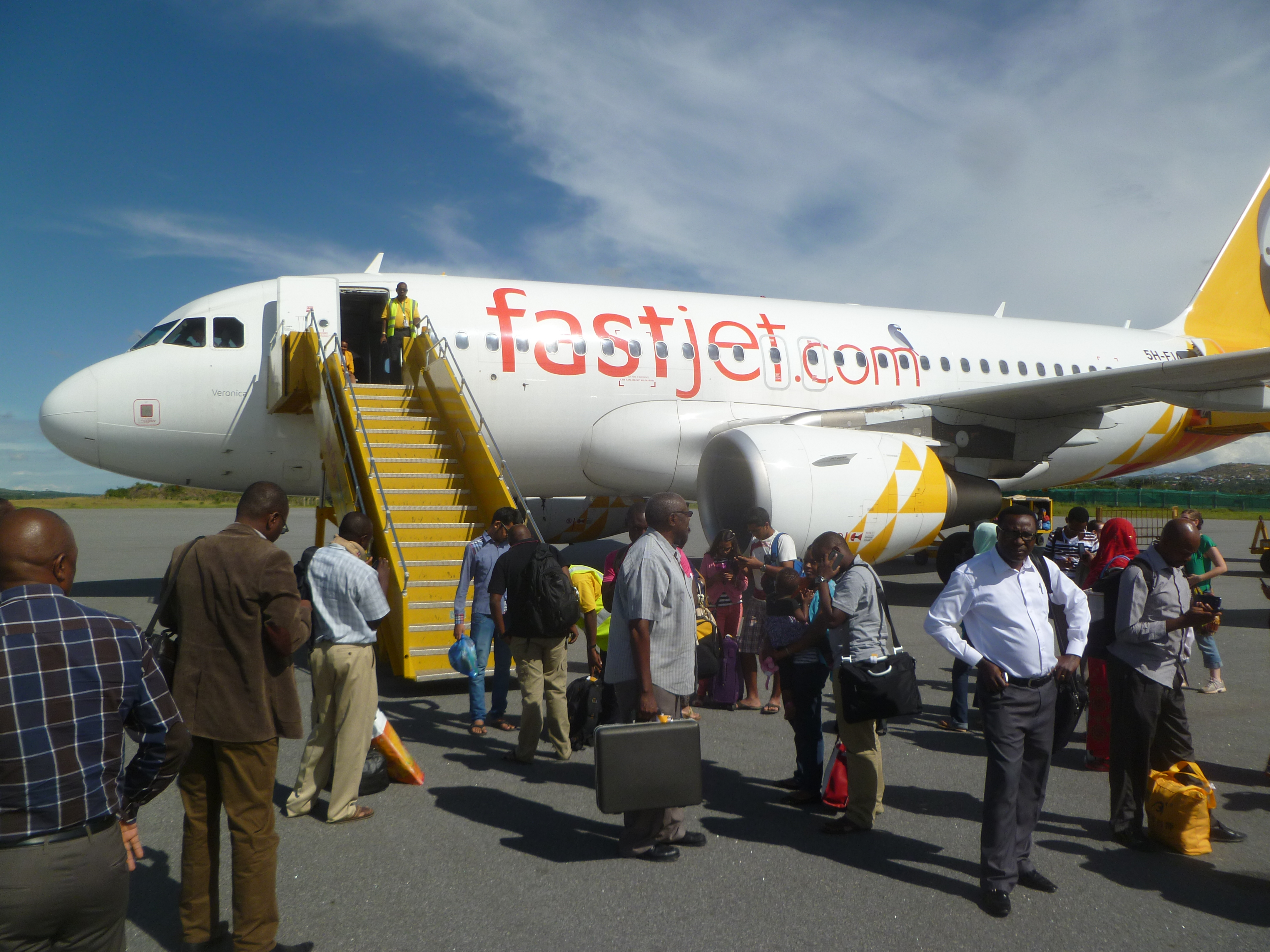 Airbus A319 of FastJet at Mwanza Airport after arriving from Dar es Salaam.